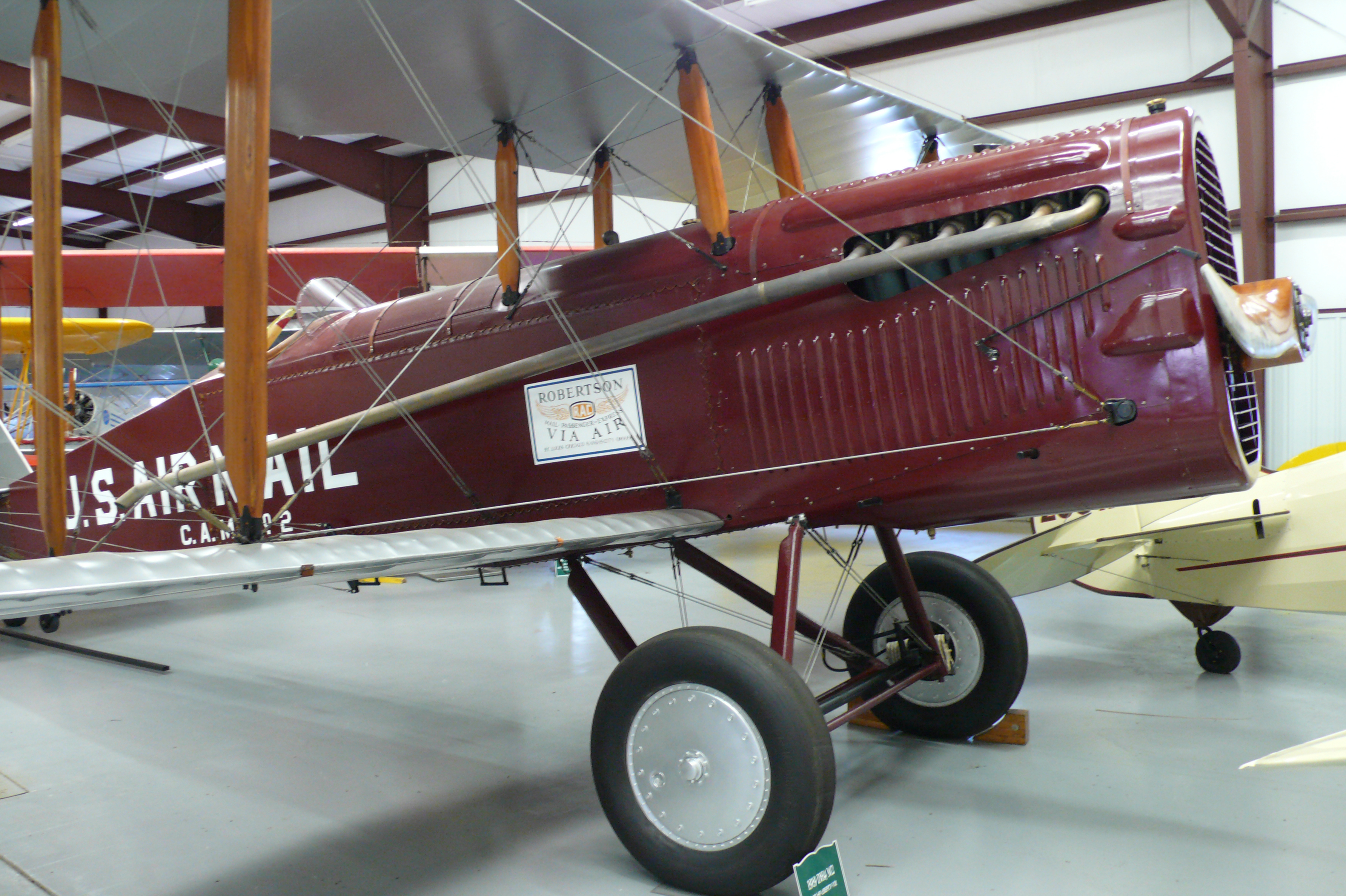 Airco DH.4, US Airmail